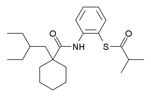 Structure of JTT-705